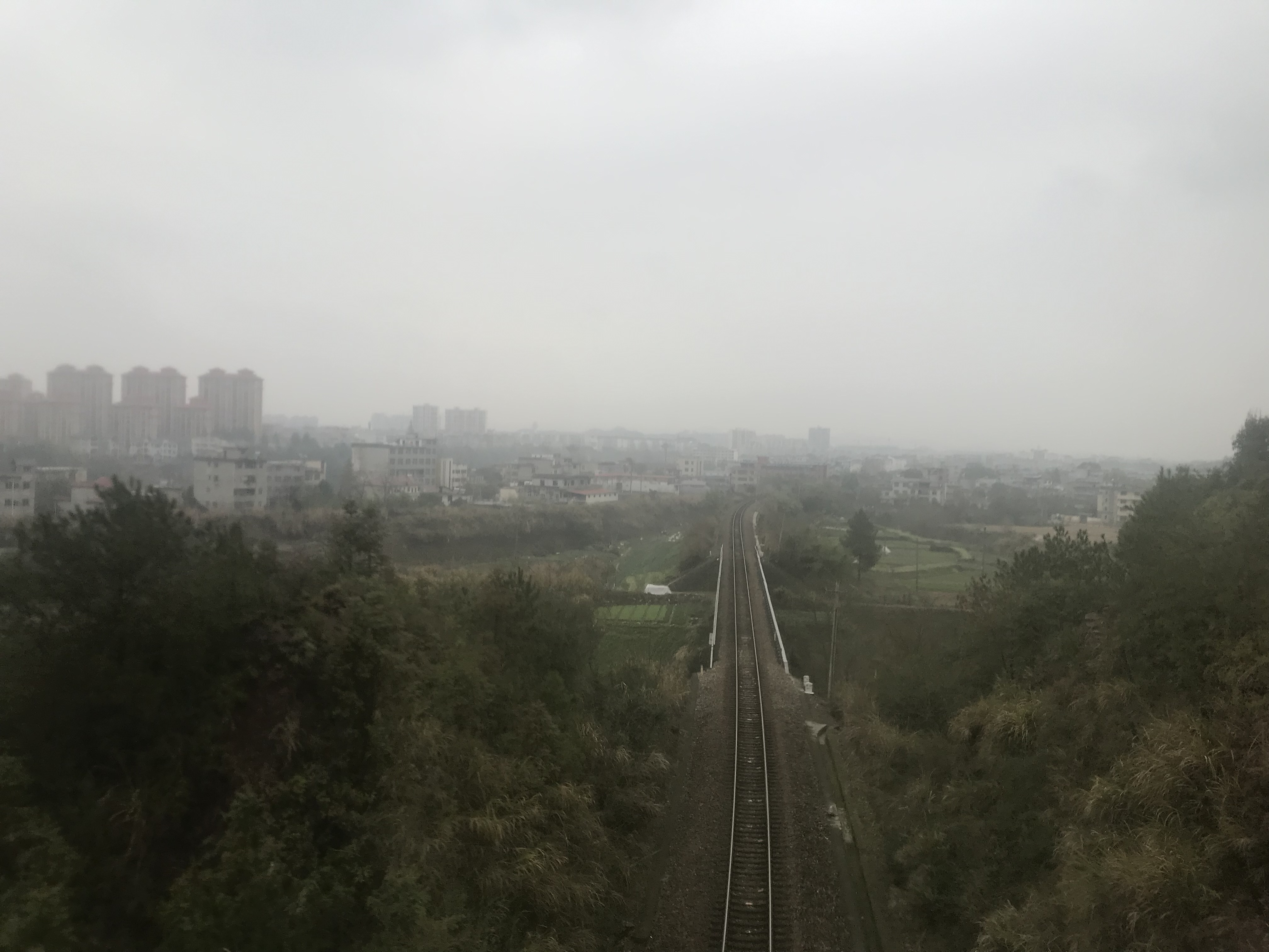 Taken on the inbound track of Quzhou-Jiujiang Railway